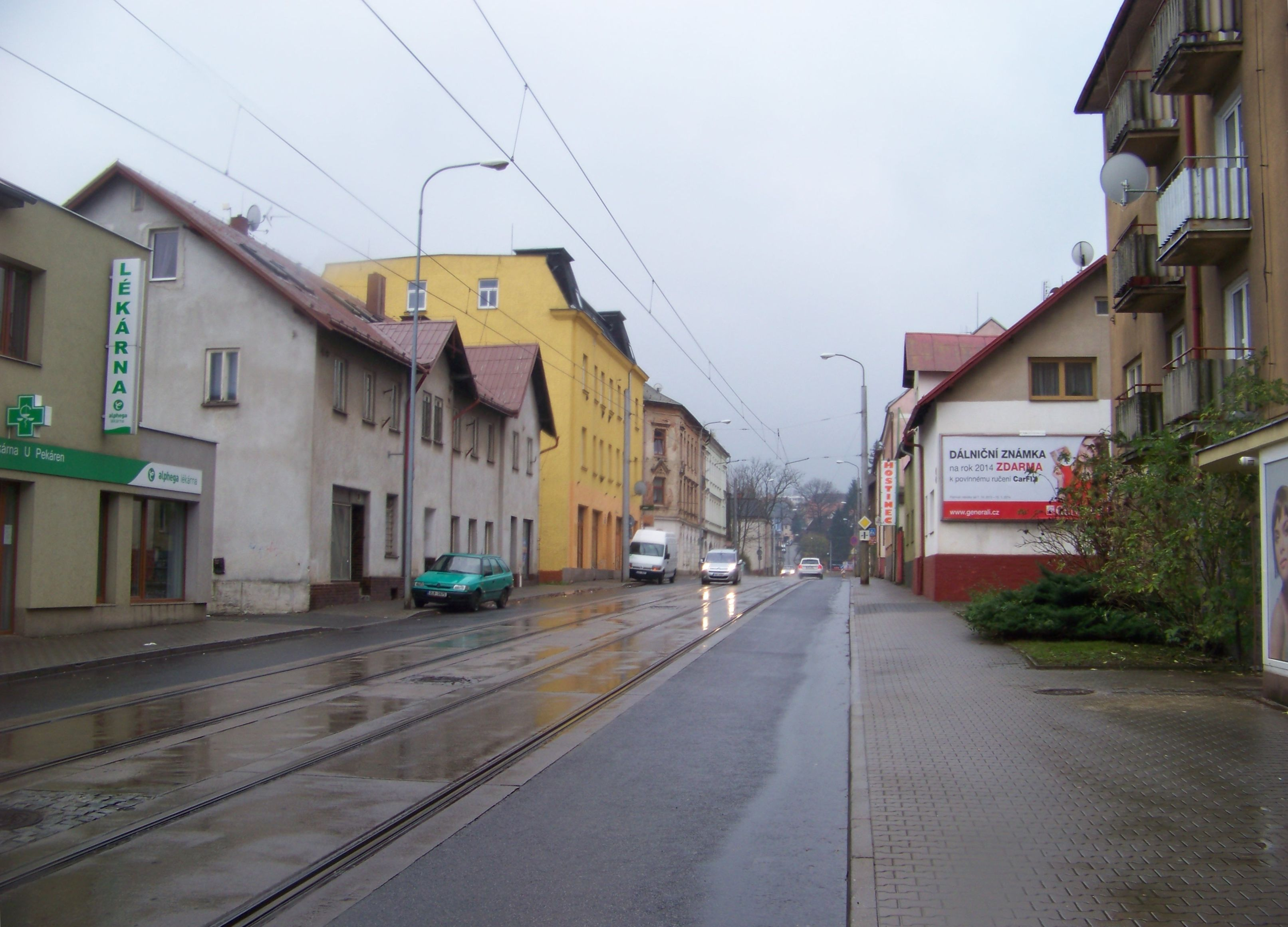 Liberec III-Jeřáb, Liberec District, Liberec Region, Czech Republic. Hanychovská 596/22, tram stop Krkonošská. - Google Maps - Google Earth